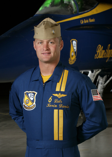 Blue Angels Media Kit